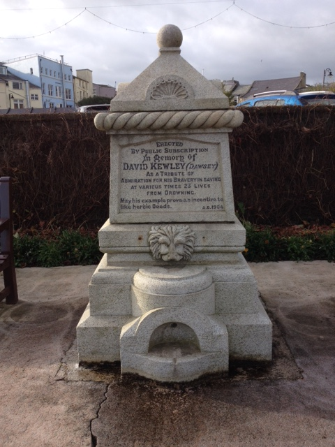 The memorial to the heroism of David "Dawsey" Kewley, Douglas Isle of Man